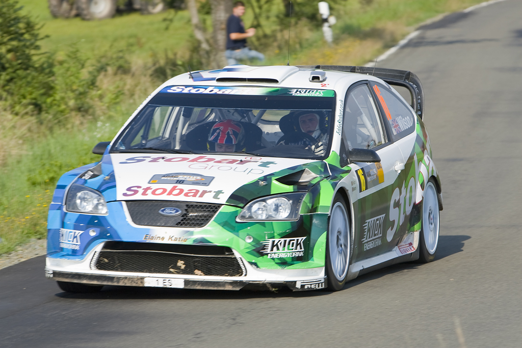 Matthew Wilson driving his Ford Focus RS WRC 07 at the 2008 Rallye Deutschland.